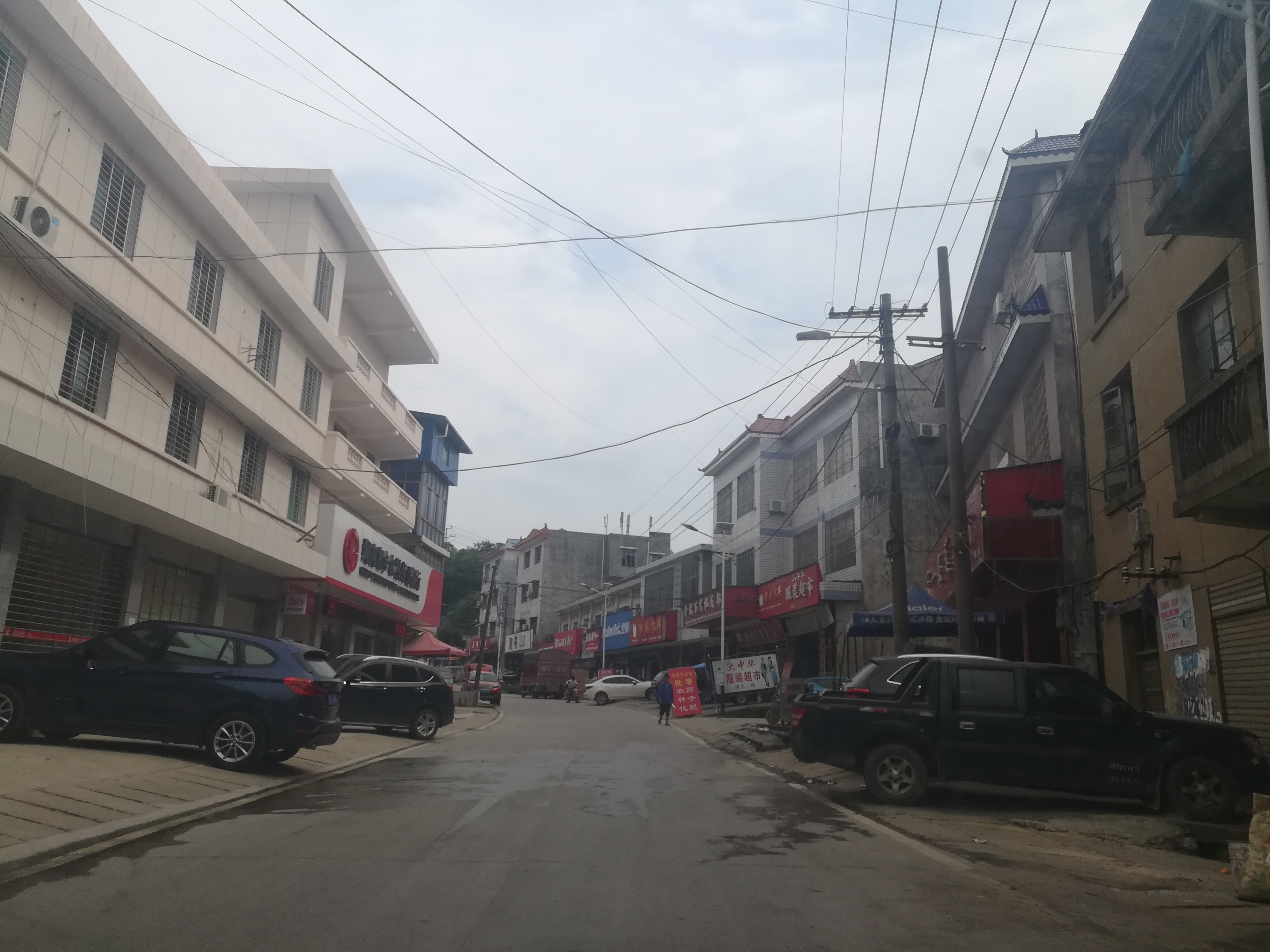 Residential buildings along Provincial Highway S311 in Fanjiang Town of Xiangxiang, Hunan, China.